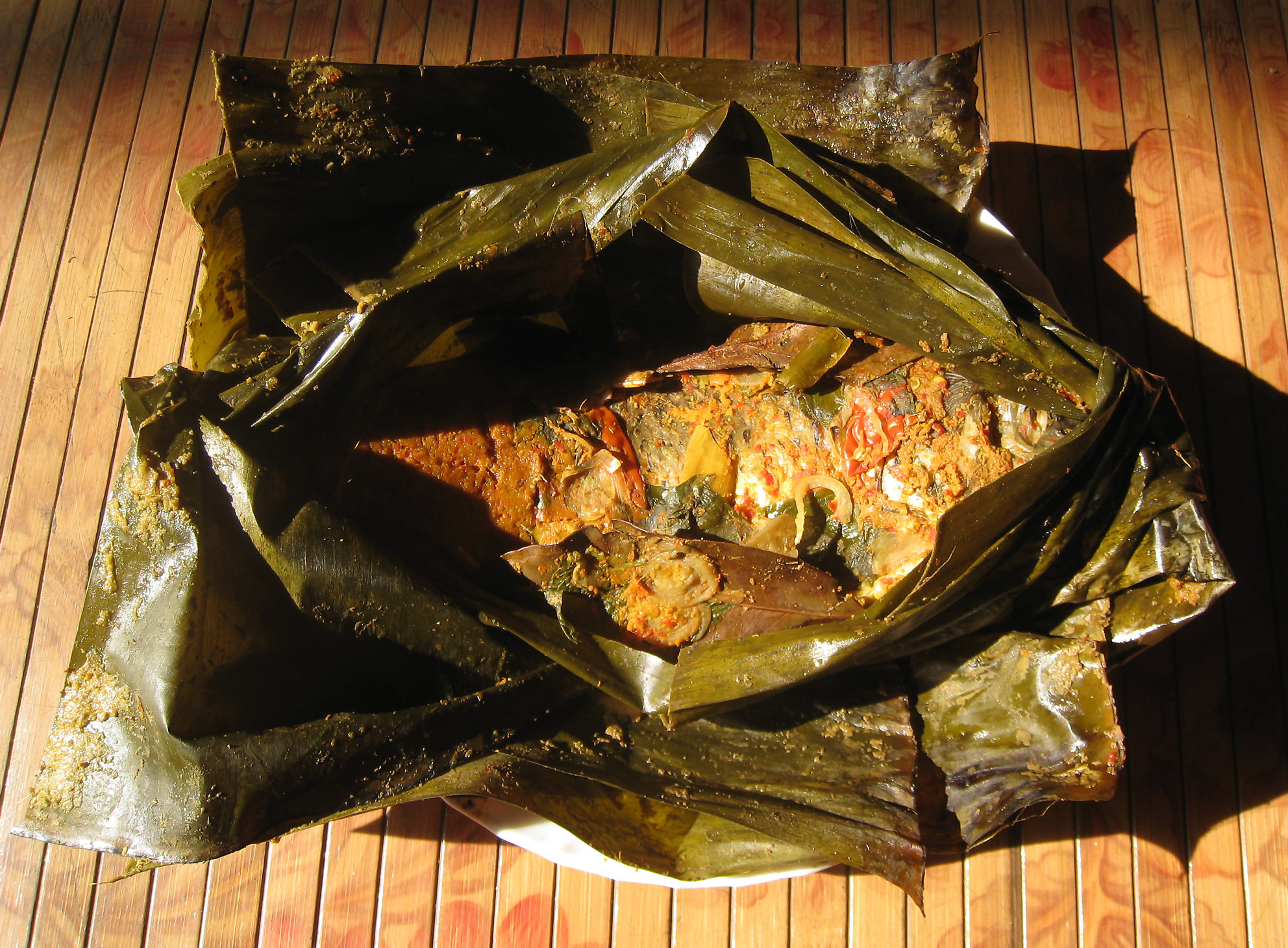 Pais lauk mas (pepes ikan mas), a carp fish in spices and herbs cooked in banana leaf package. A popular Sundanese cuisine. The specialty cooking of Ibu Sulastri, Rawasari, Central Jakarta.